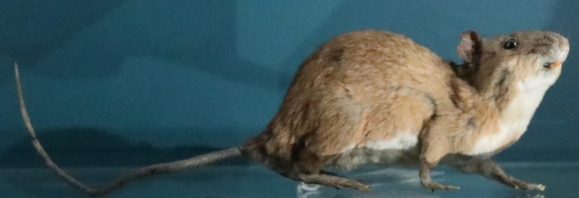 Photo of a taxidermied Maxomys hellwaldii